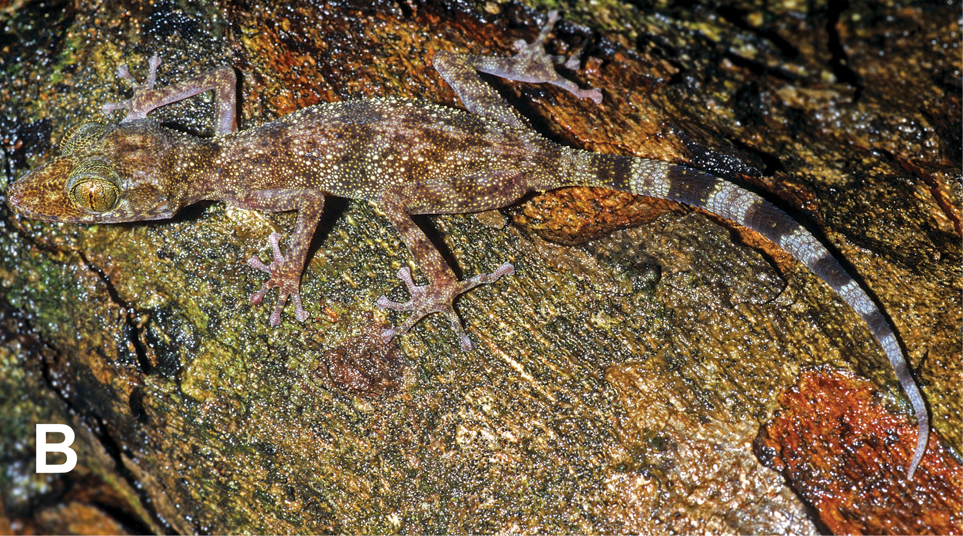 Paroedura homalorhina from its type locality Ankarana.